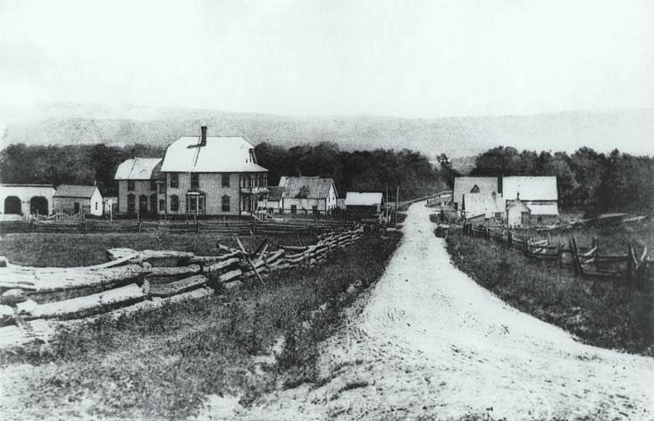 Print, New Richmond Station, Gaspé, QC, about 1910, Anonymous, Ink on paper mounted on card - Collotype - 8 x 13 cm